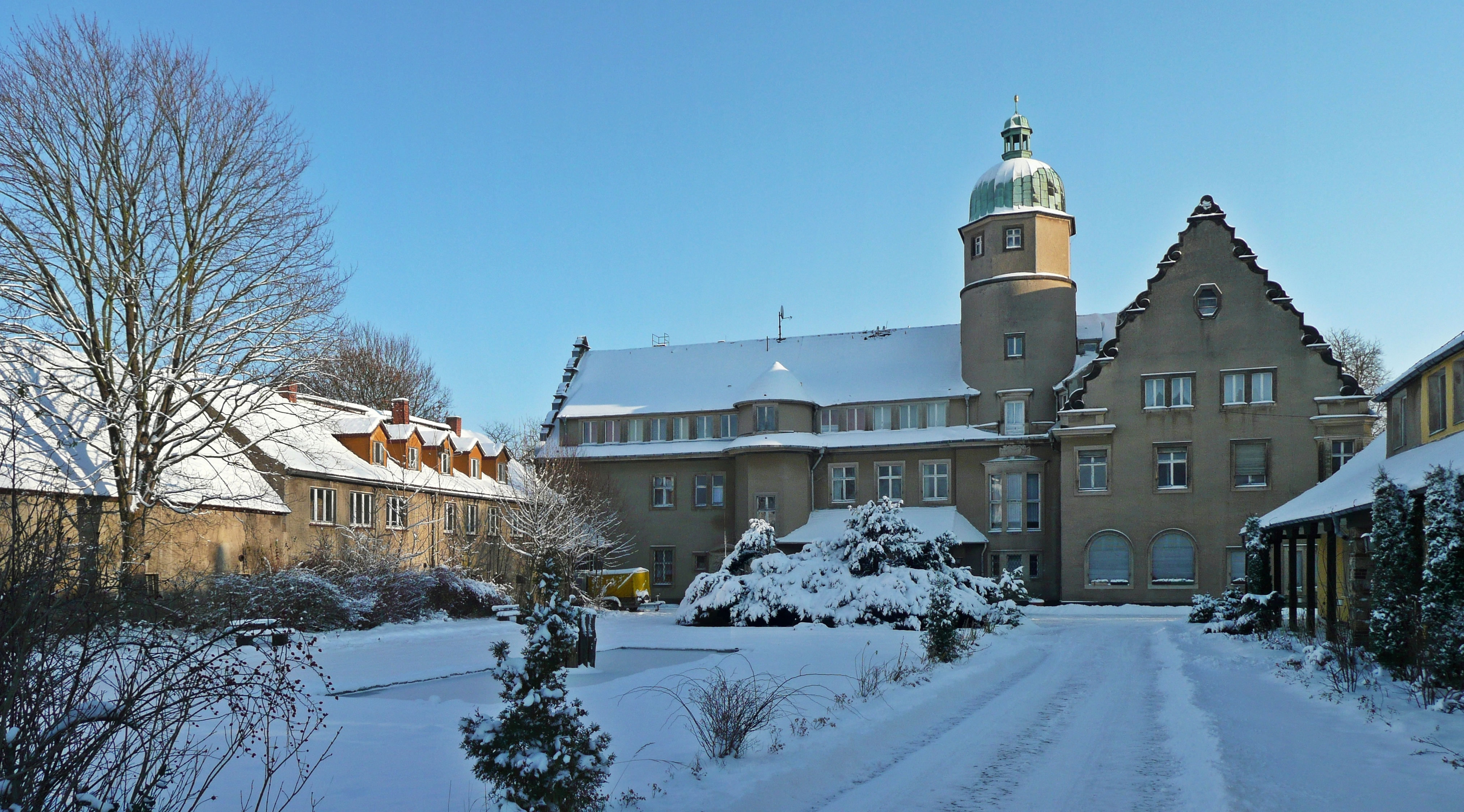 This image shows Helmsdorf Palace (Schloss Helmsdorf) in Helmsdorf near Stolpen.